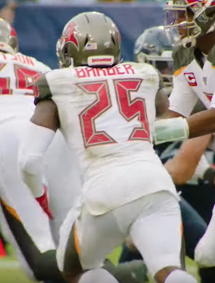 Peyton Barber 2019. Image from video Titans Mic'd Up vs. Bucs (Week 8) | Sounds of the Gamee, ~ 03:39.